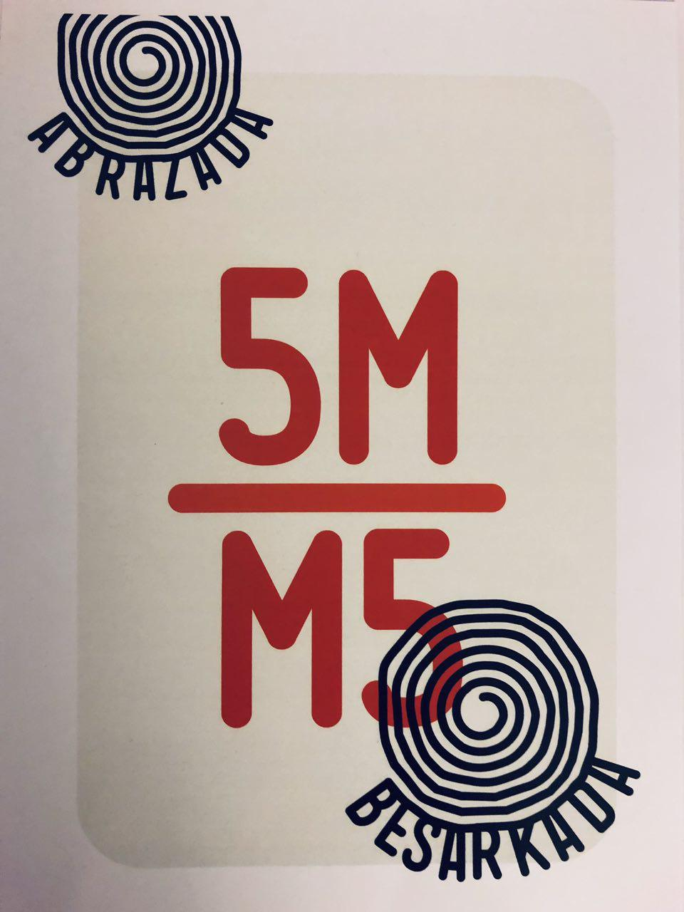 Logo